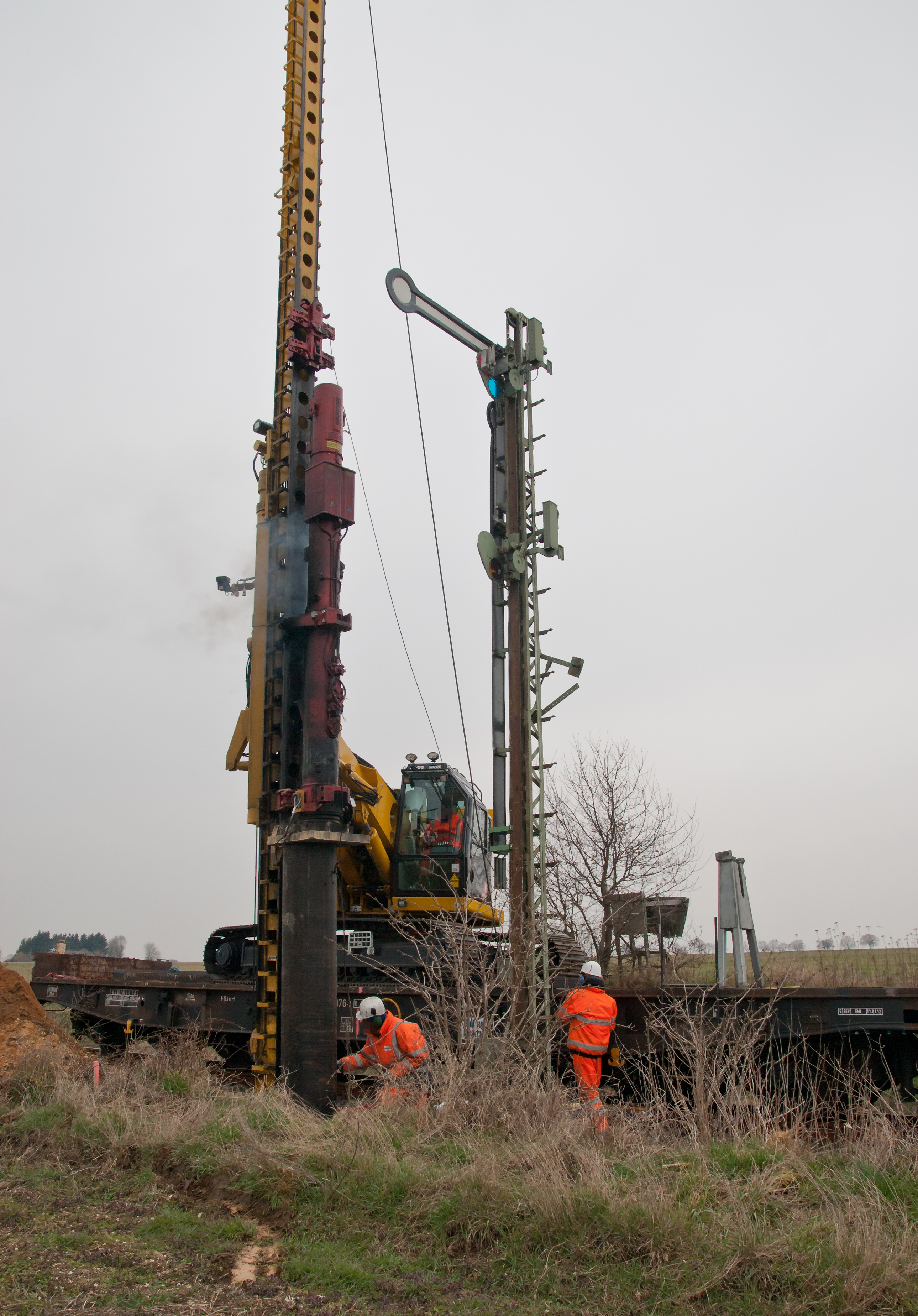 Pile driver Delmag at railroad construktion